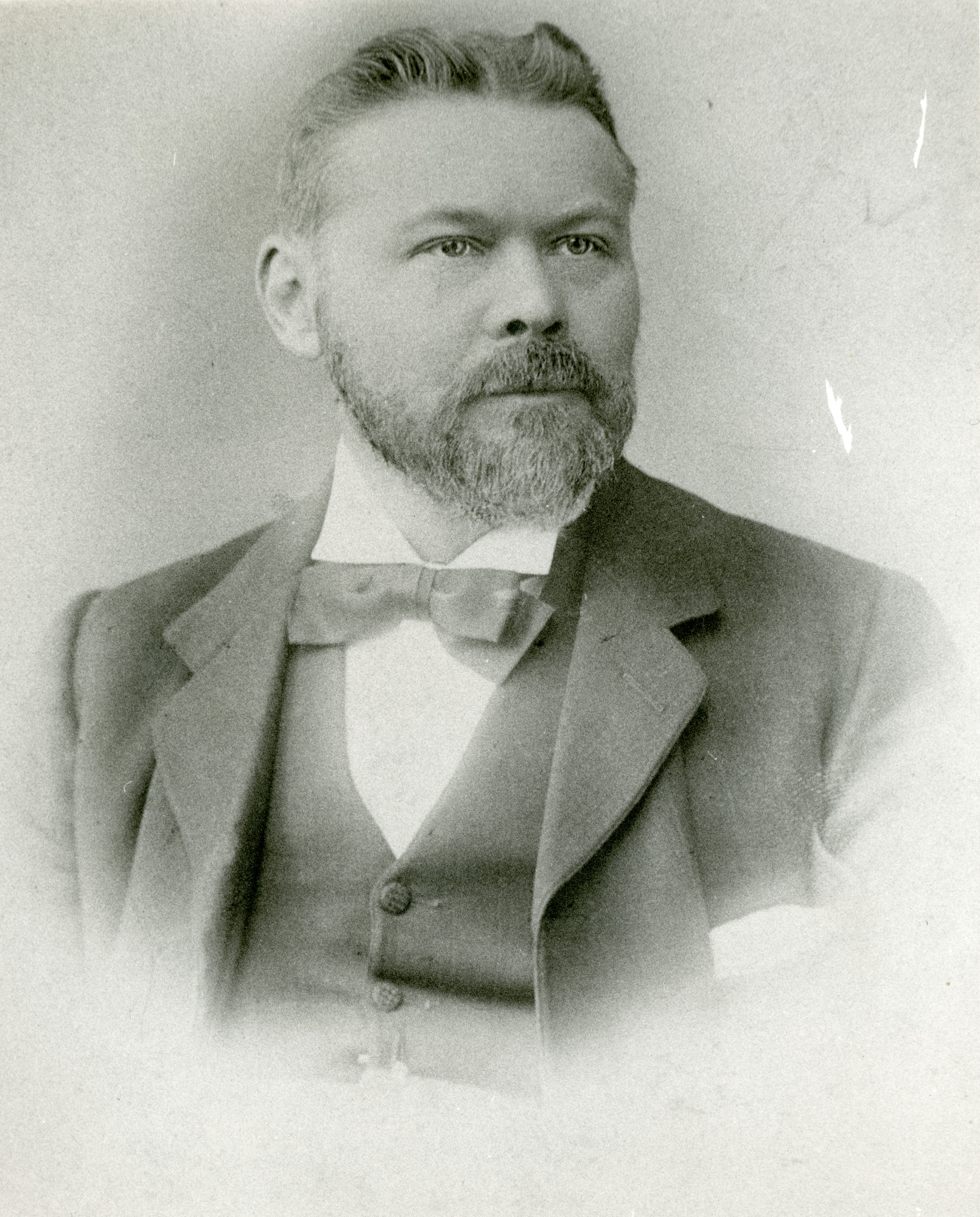 Photographic portrait of Magnus Volk, ~ 40 years of age.